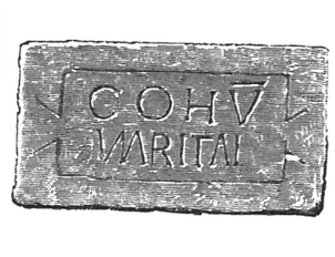 Centurial stone of the fifth cohort the century of Martialis, found before 1873 in Ebchester/Vindomora (GB). Built in above the door of a cottage lying west of Ebchester Rectory, where Haverfield saw it in 1895.